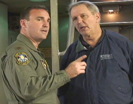 Maj. Rob Oswald, an Air Force reservist in the 315th Airlift Wing at Charleston Air Force Base, S.C., talks with his uncle, ABC World News anchor Charles Gibson. Major Oswald had the opportunity to fly his uncle on a civil leader flight March 28, 2009. (U.S. Air Force photo/Capt. Wayne Capps)